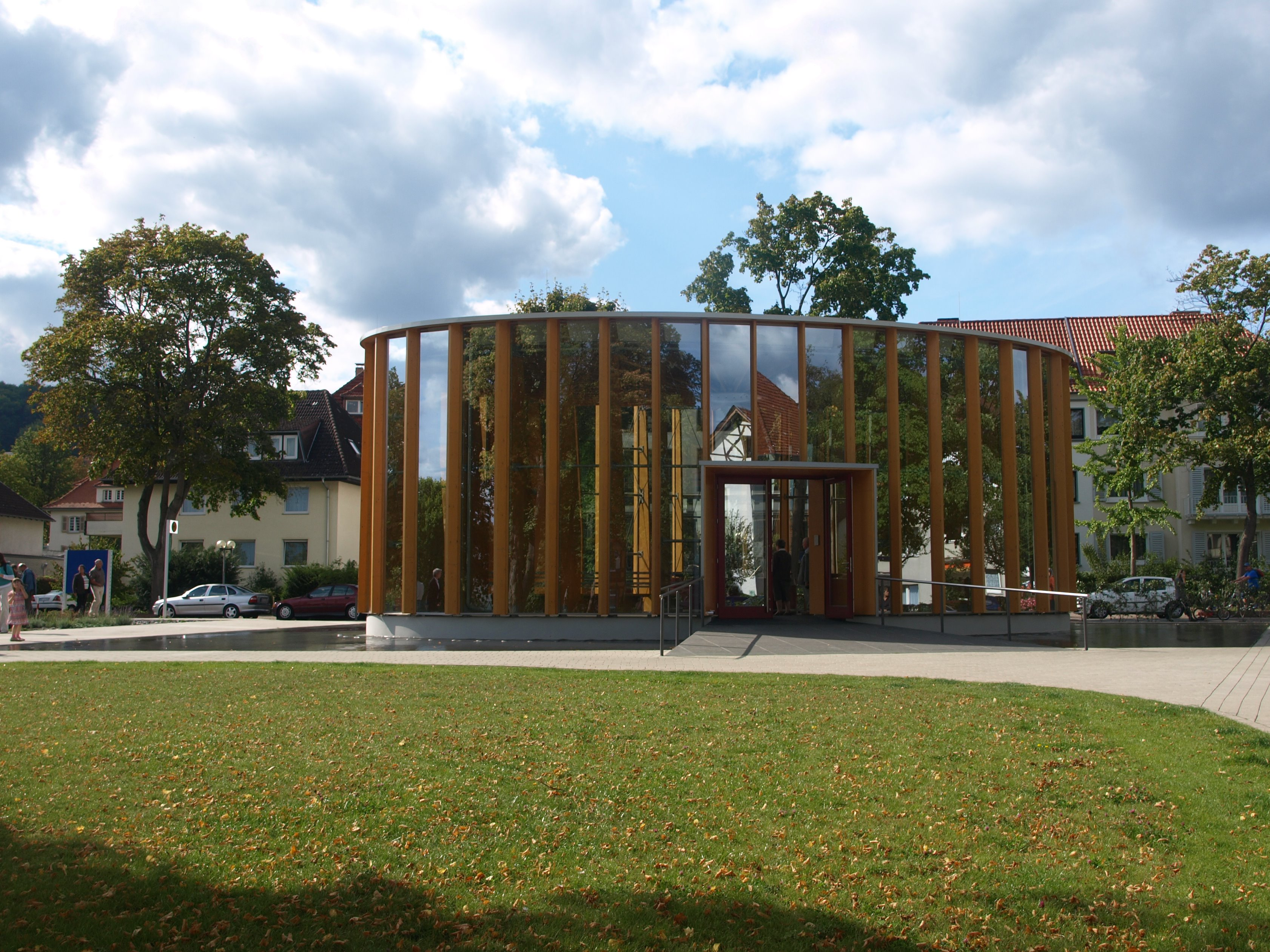 In 2008 constructed well gazebo, in spa gardens of Bad Hersfeld